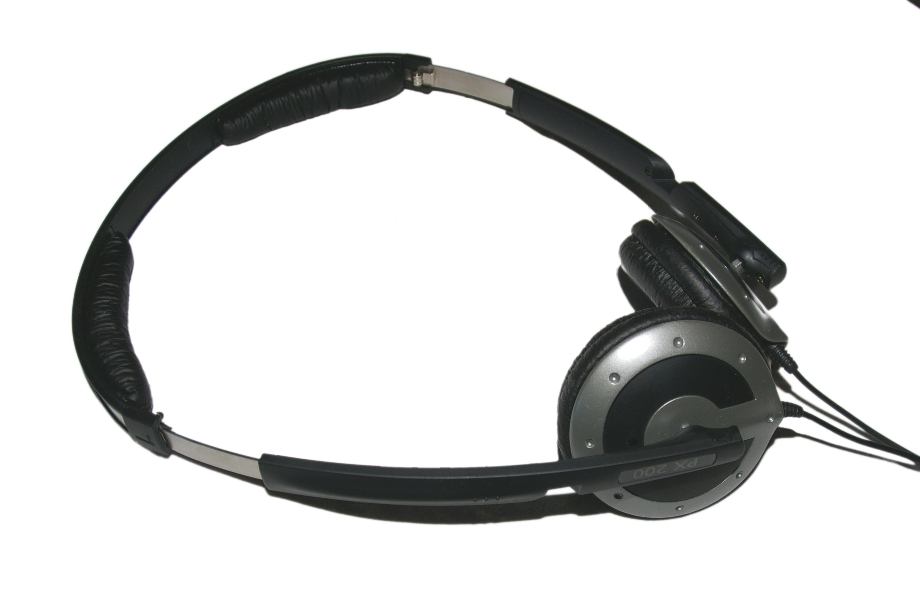 Photo of a Sennheiser PX-200 headphones, taken with a PENTAX ist* DS, and edited with The GIMP.